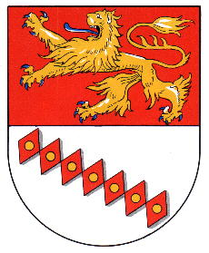 Coat of Arms of Ahlten First upload in de-wp: Hover dam (00:12, 27. Jan. 2007)